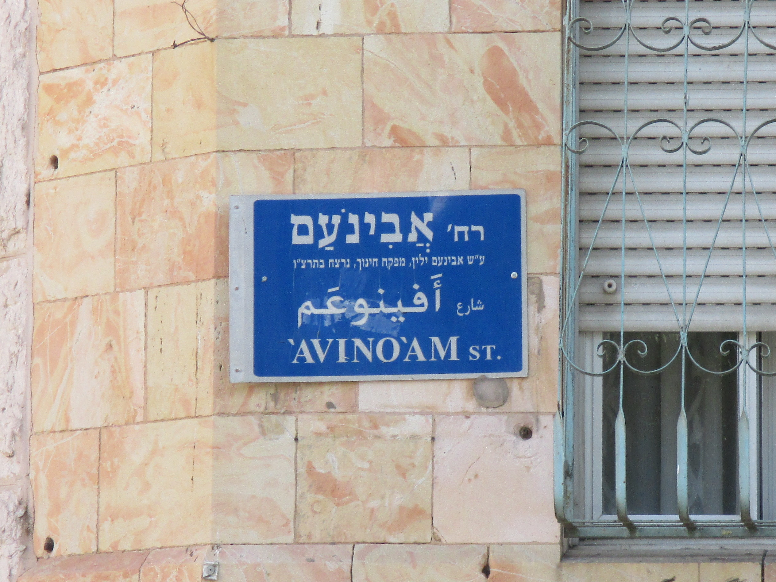 Jerusalem, Bukharim neighborhood, Avino'am street sign, corner with Yekhezkel (Ezekiel) Street